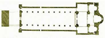 Plan of Palermo Cathedral (XII cent)